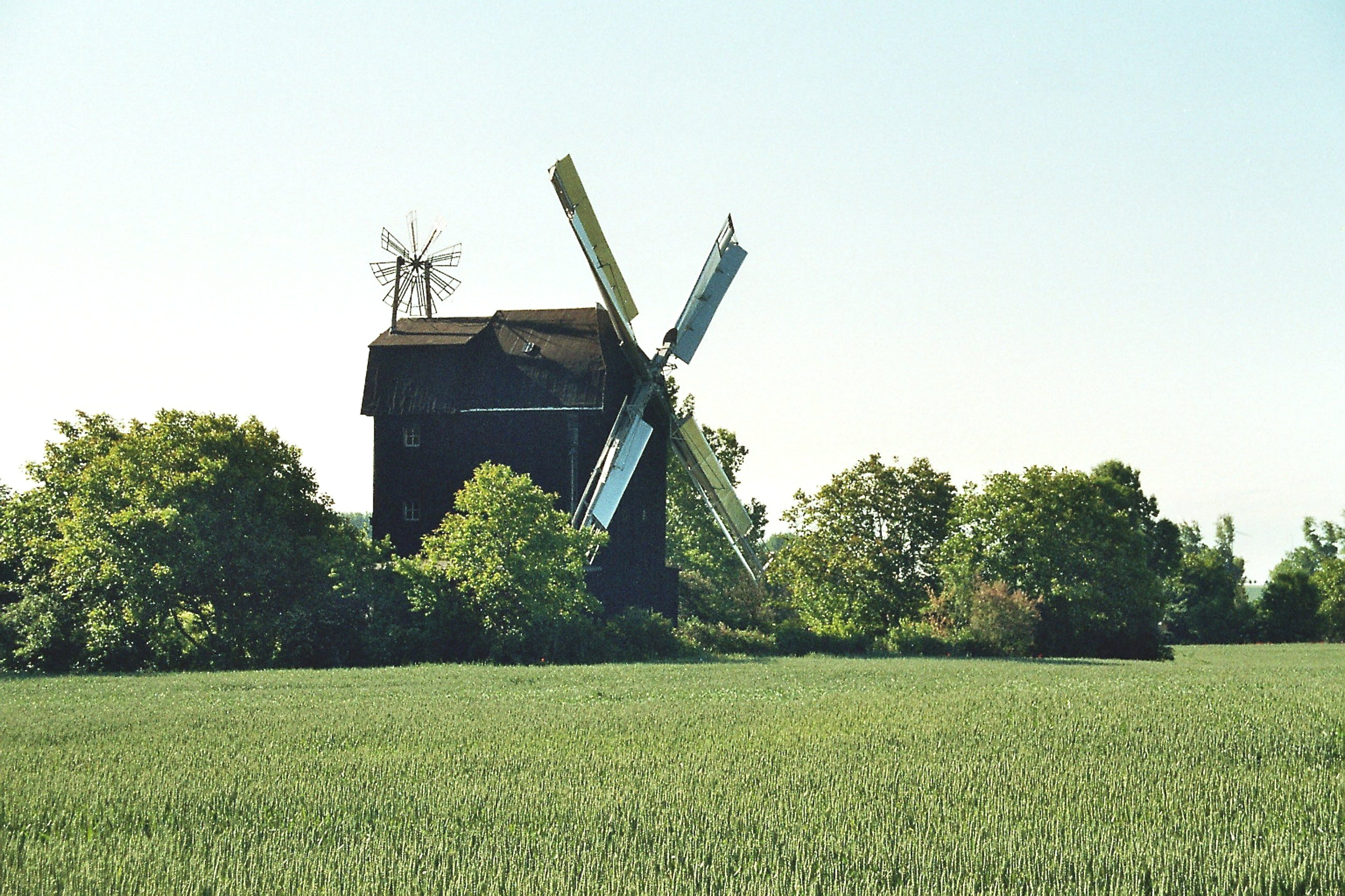 Klein Germersleben, the windmill